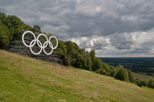 Olympic rings were installed on Box Hill in Surrey, England, on the route of the men's and women's cycling road races in July 2012.